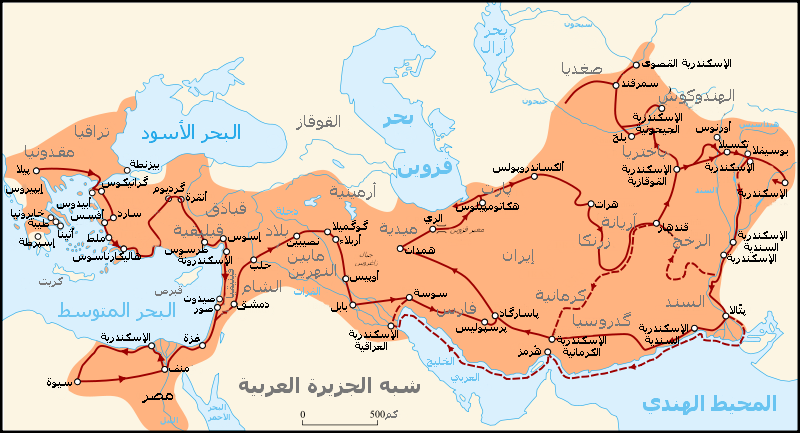 Map of Macedonian Empire under Alexander III "The great" command in Antic period.